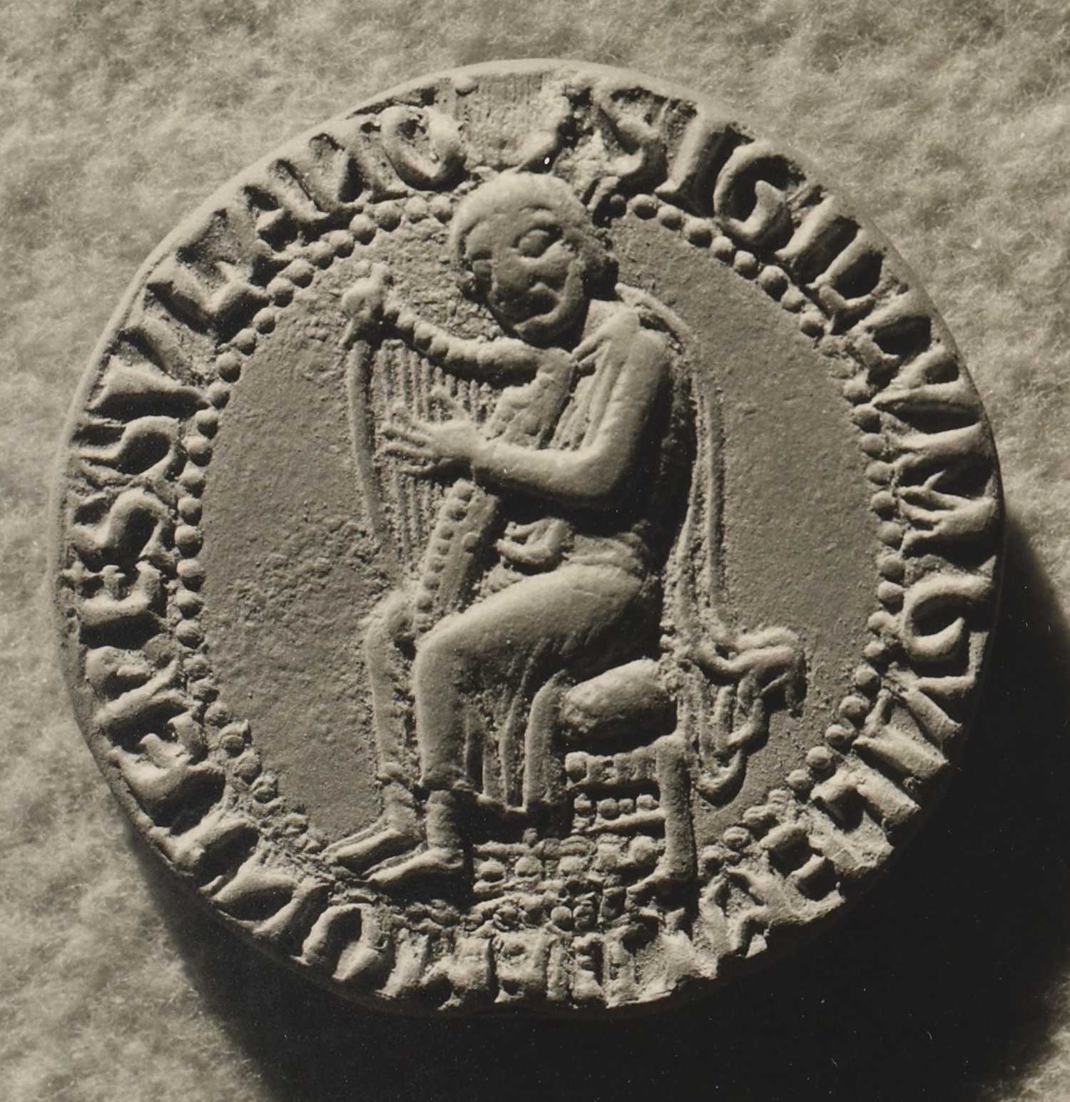 Seal representing Guilhèm VIII (Lord of Montpelhièr) as a troubadour.